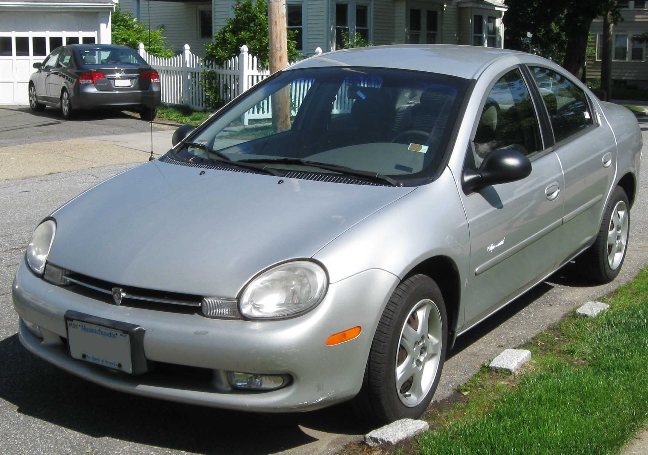 2000-2001 Plymouth Neon photographed in Watertown, Massachusetts, USA.